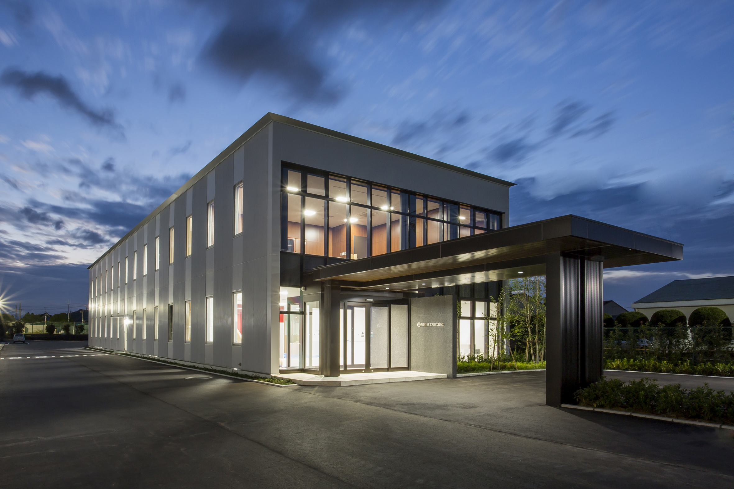 Showa Manufacturing Co., Ltd.